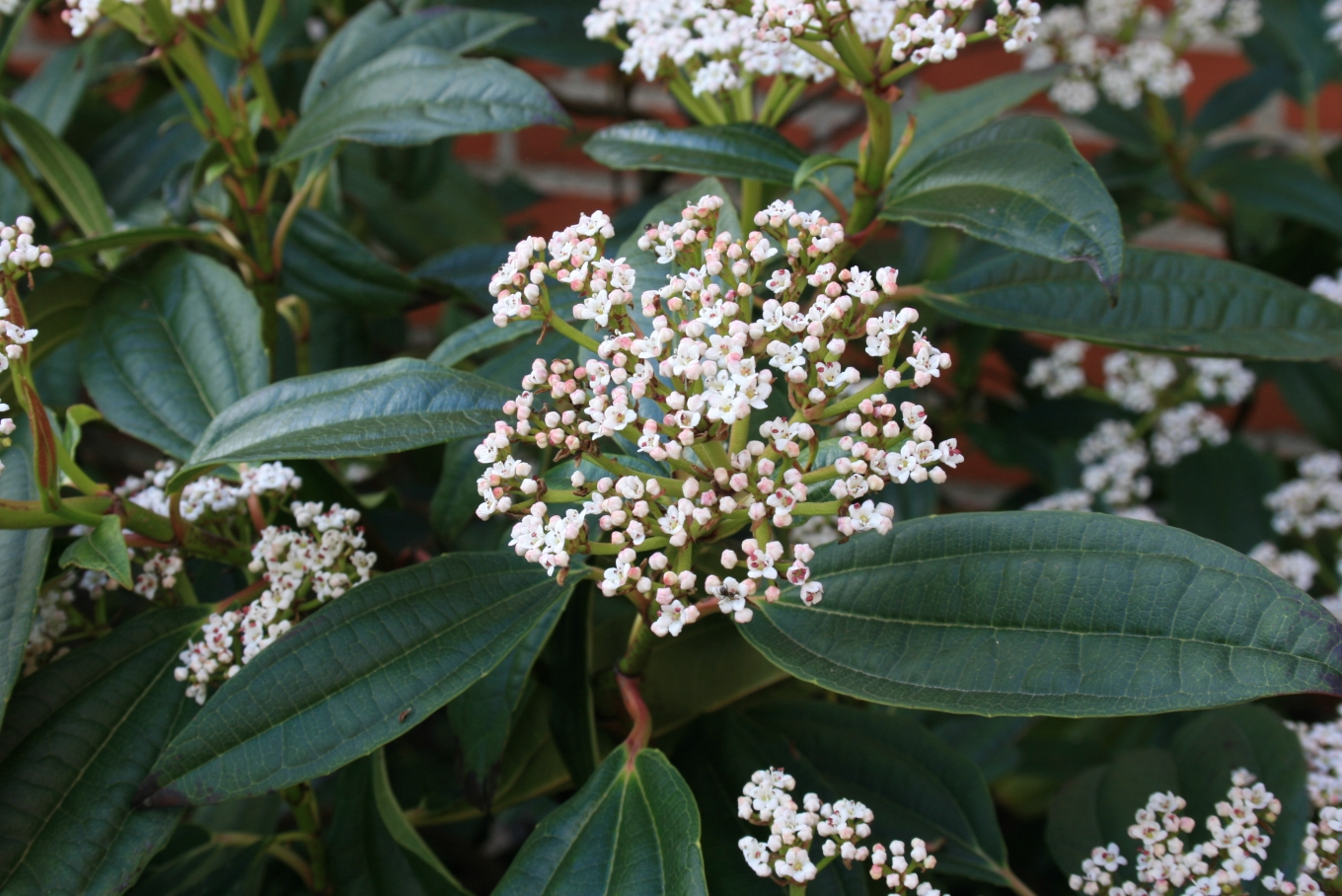 Viburnum davidii: Flowers